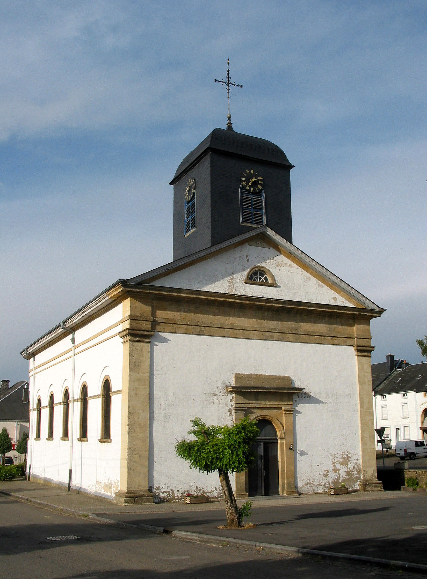 Chiny, Belgium: St. Walpurga's church (1828–1829).